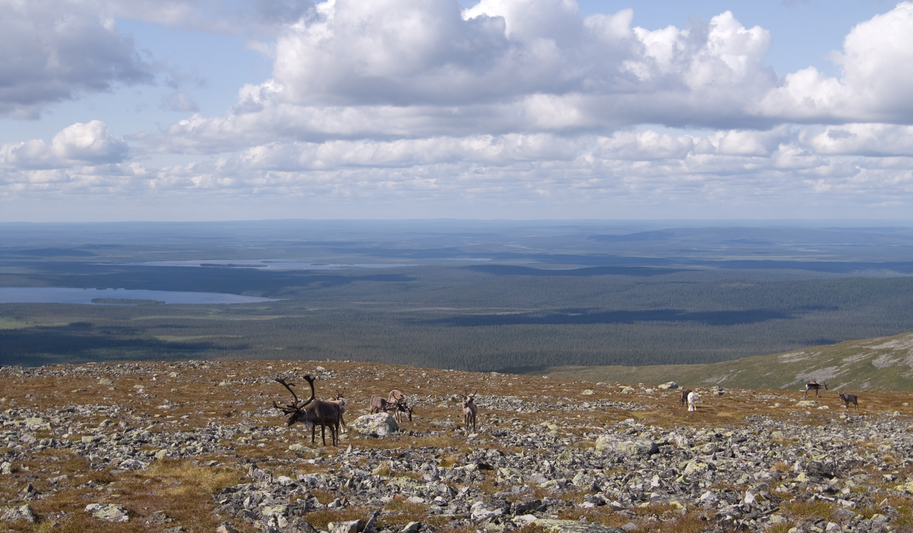 Reindeers of the Taivaskero. View towards west.